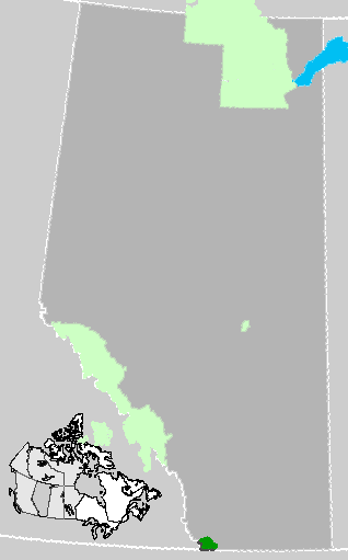 Location of Waterton Lakes National Park